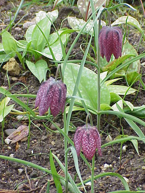 Species: Fritillaria meleagris Family: Liliaceae Image No. 2